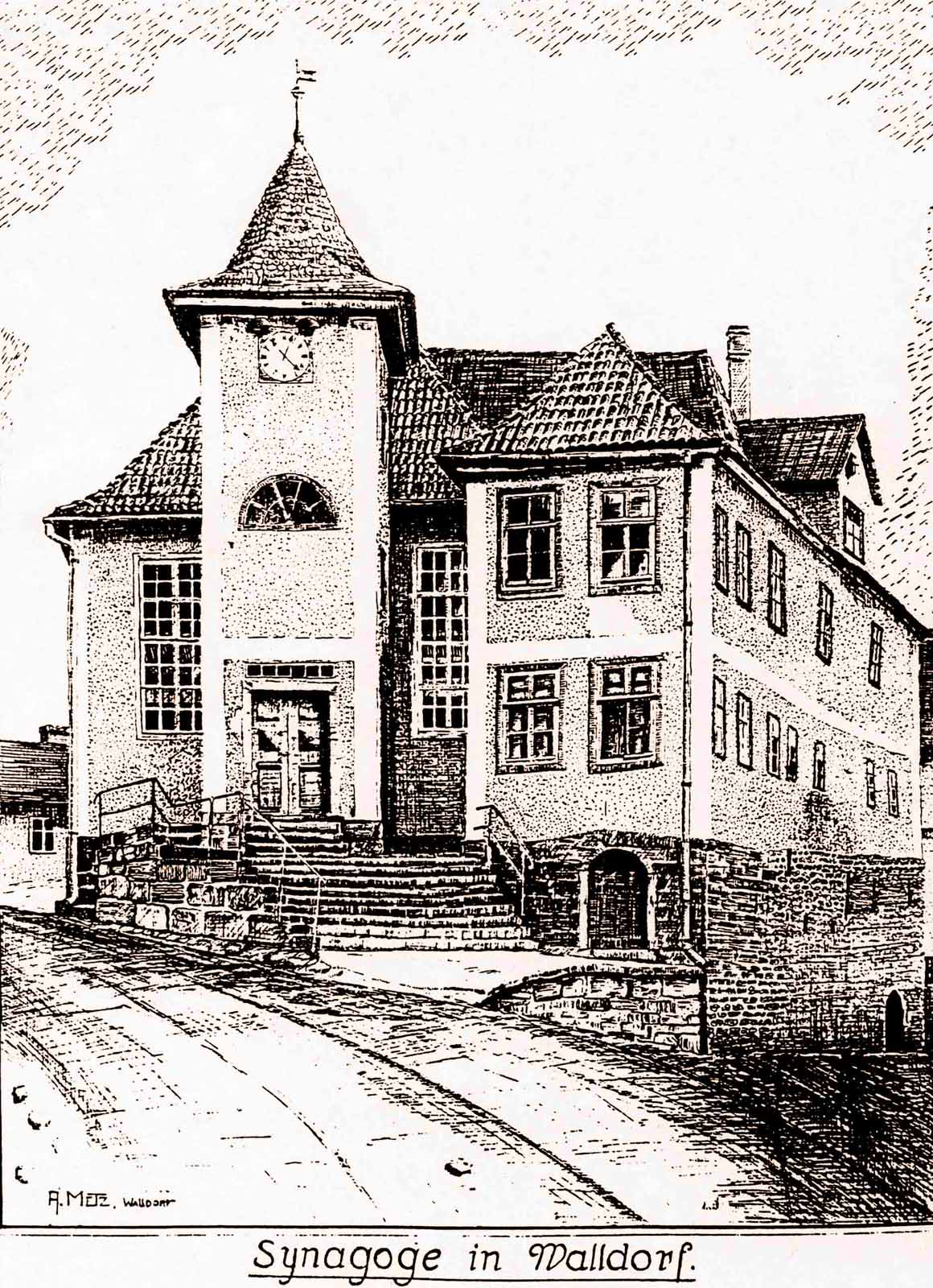 Walldorf (Werra), synagogue, 1949 demolished